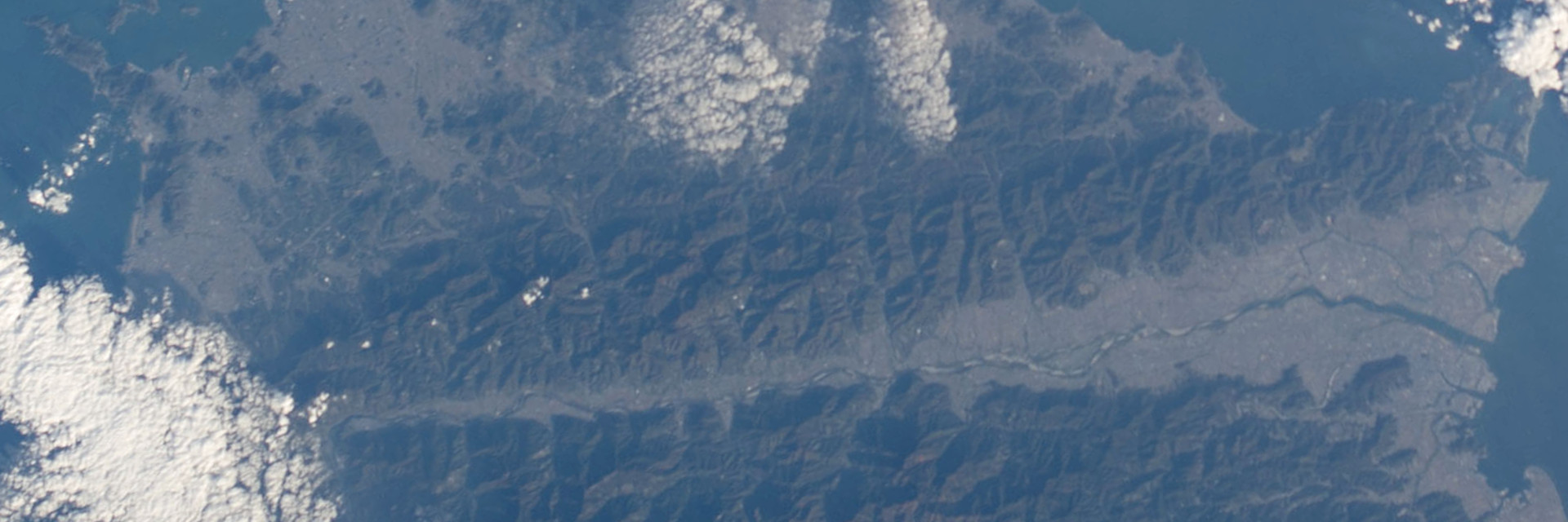 The northeastern part of Shikoku (Sanuki Mountains, Yoshino River, Tokushima Plain, Mitoyo Plain, Marugame Plain, Shonai Peninsula and the northeastern part of Shikoku Mountains) taken from the International Space Station at 23:30:17 GMT on Nov. 22, 2013.